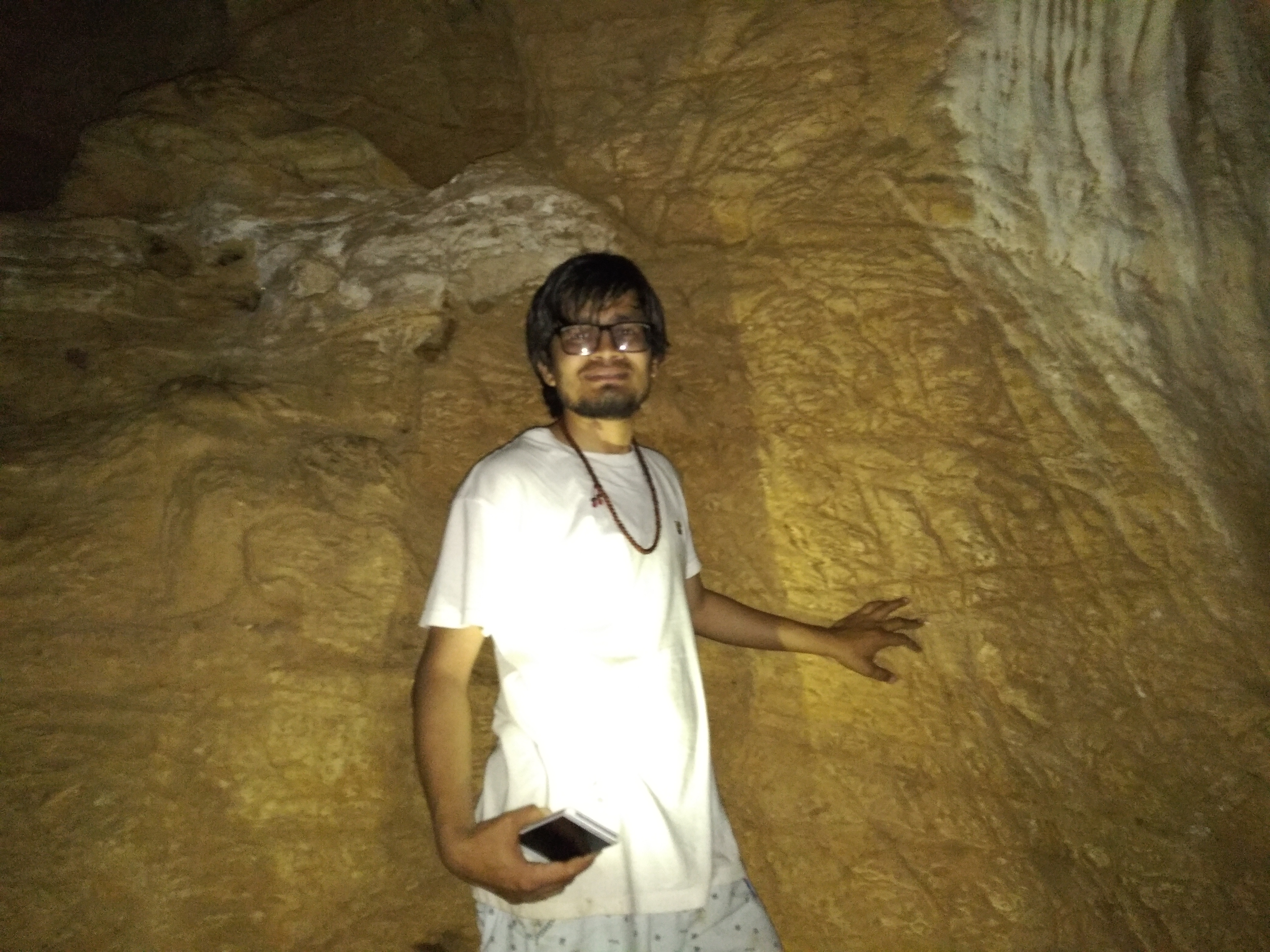 This picture was taken by binamra on siddha cave